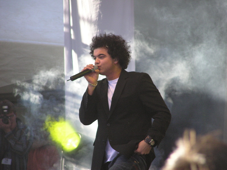 Guy Sebastian performs at the Australian Gospel Music Festival on Easter Sunday 11 April 2004 to a record crowd.